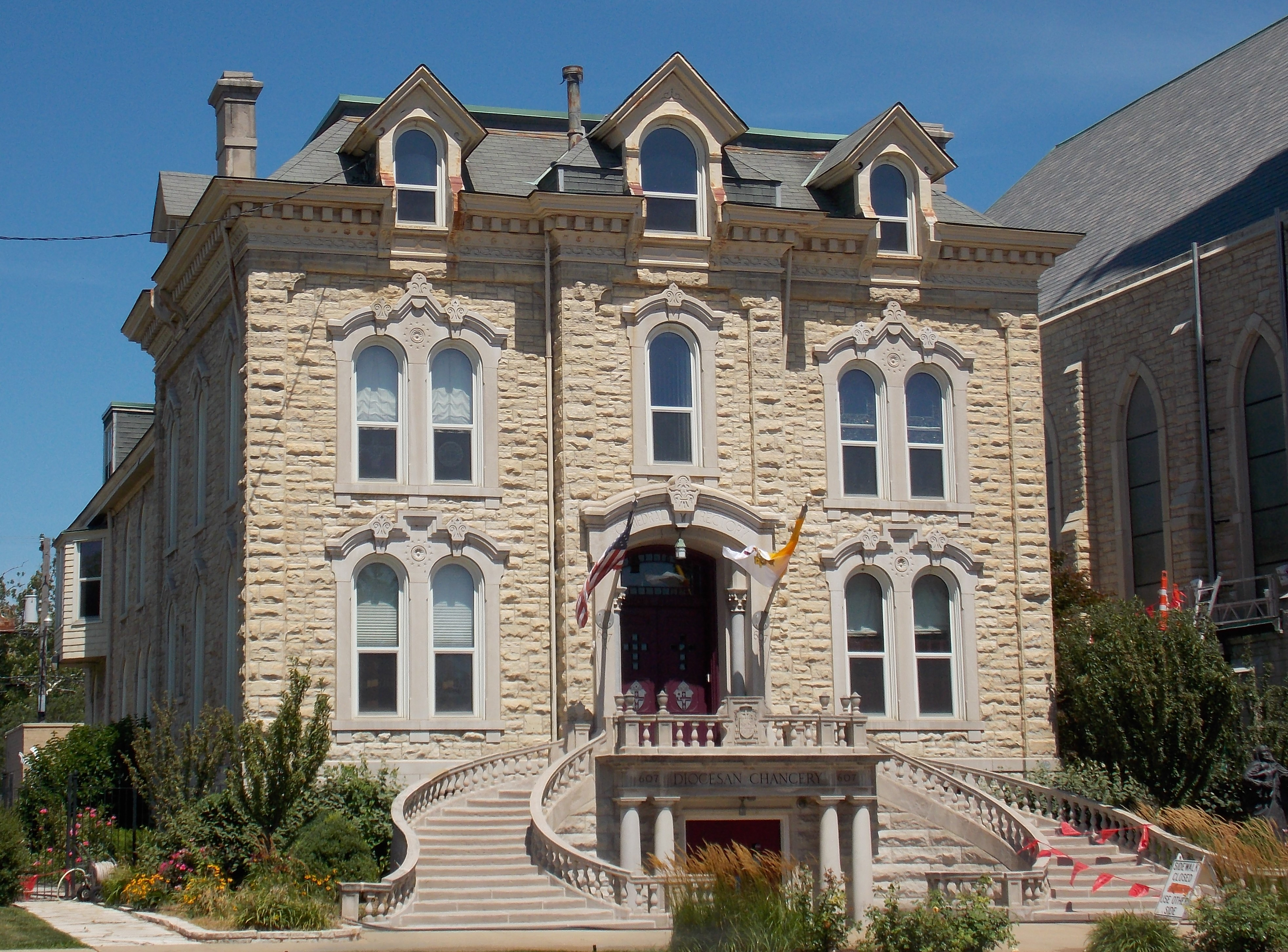 The cathedral rectory (bishop's house, former diocesan chancery) of Saint Mary's Cathedral in Peoria, Illinois. It is a contributing property in the North Side Historic District.